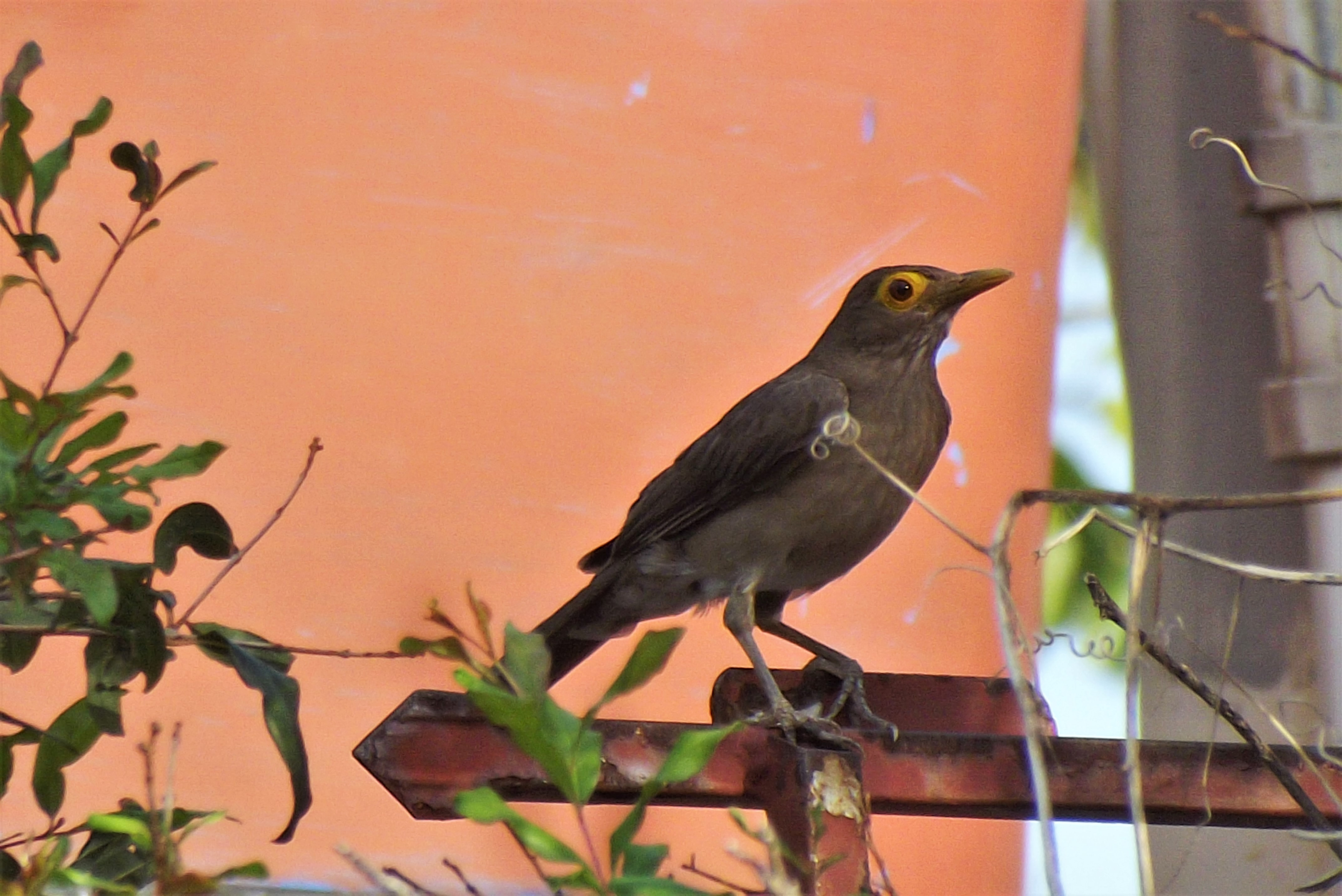 Paraulata Yellow-eyed Thrush, very common in populated centers of Venezuela